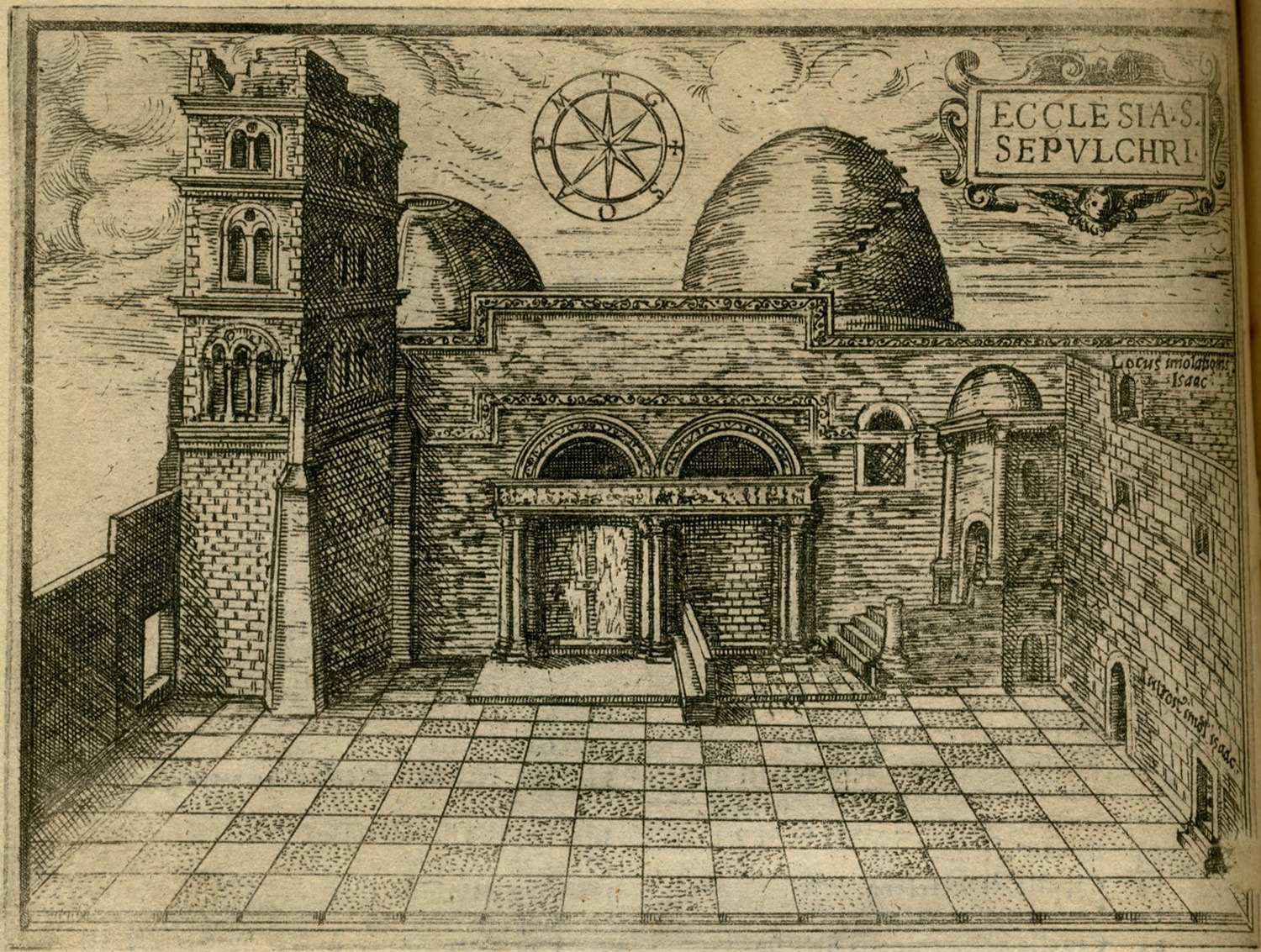 Jean Zuallart. Il devotissimo viaggio di Gerusalemme fatto, & descritto in sei libri dal Sig. Giovanni Zuallardo, Cavaliero del Santiss Sepolcro di N.S. l'anno 1586, Rome, F. Zanetti & Gia Ruffinelli, MDLXXXVII (1587), p. 186